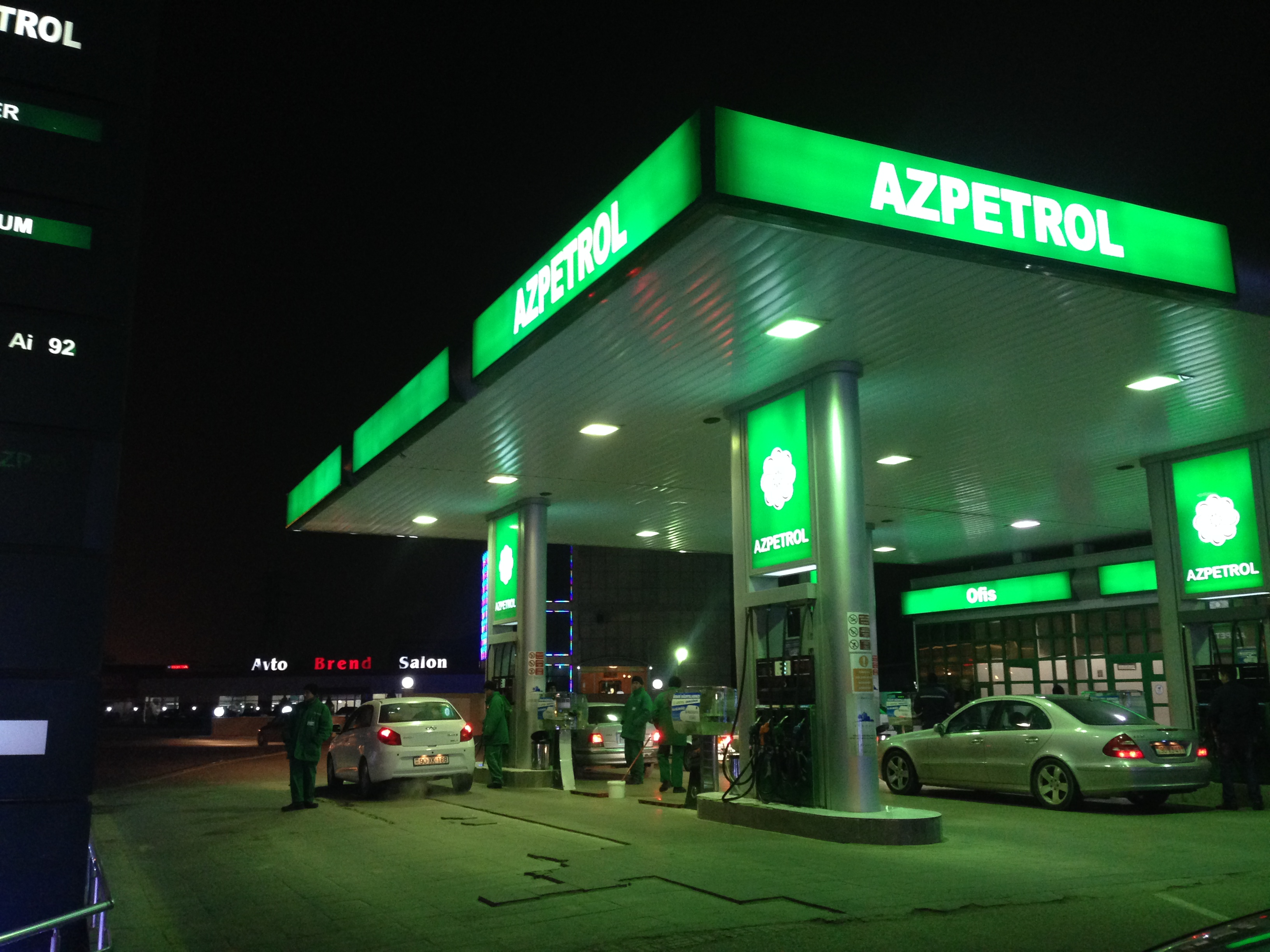 Azpetrol fuel filling station on Babek Avenue, Baku, Azerbaijan